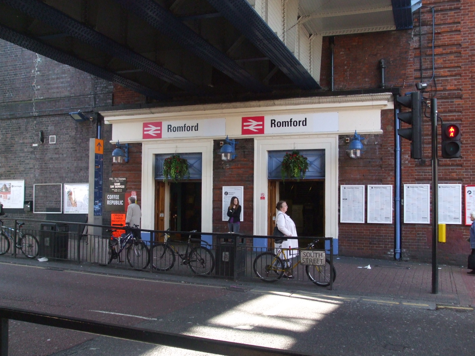 Romford station entrance, on South Street, roughly opposite the former entrance to the bay part of the station (opened by the London, Tilbury & Southend Railway), now used as a bar. This part of the station is the original 1839 Great Eastern station.